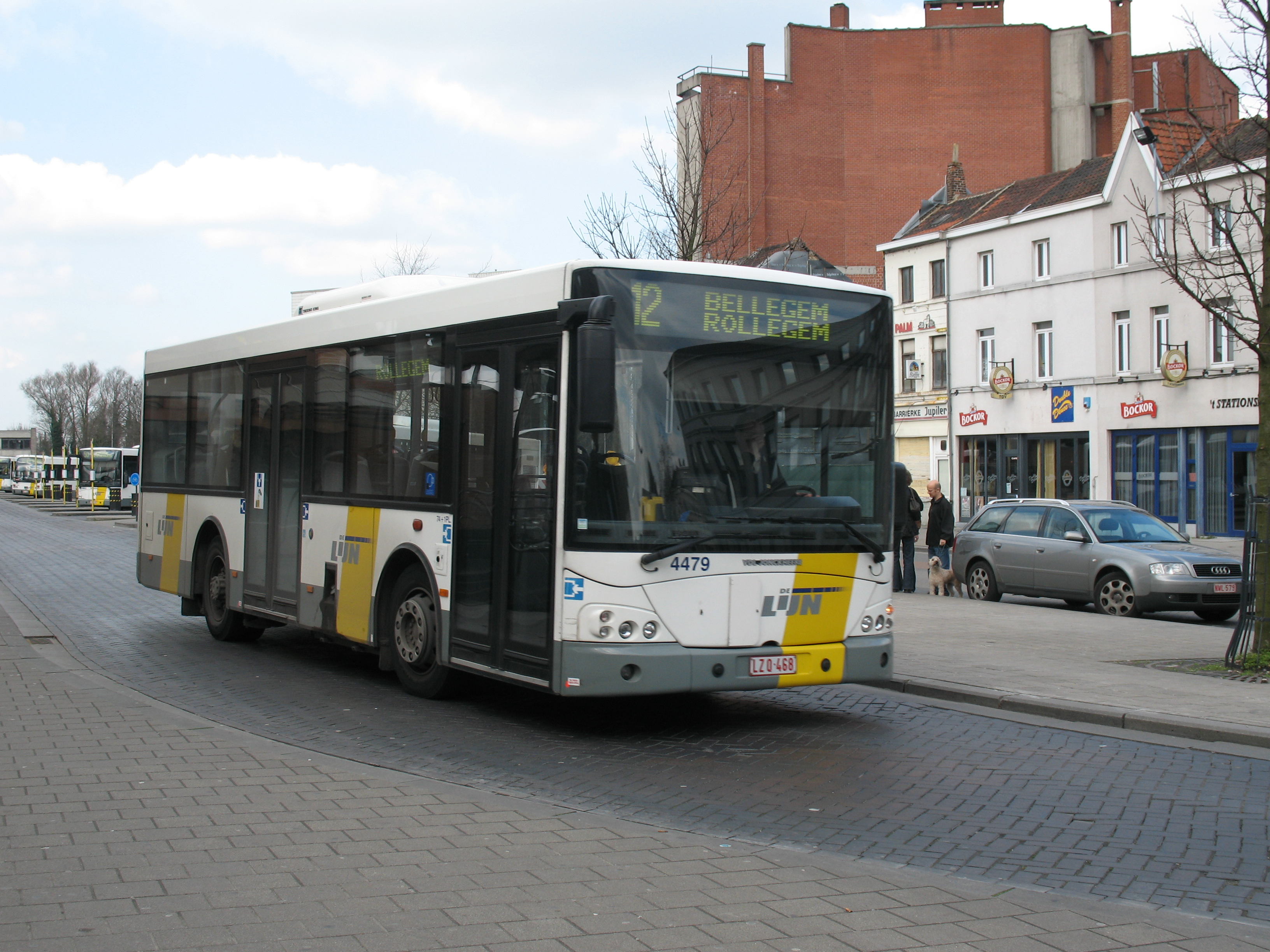 Busoperated by de Lijn leaving the bus station, adjacent to Kortrijk railway station, in Belgium.